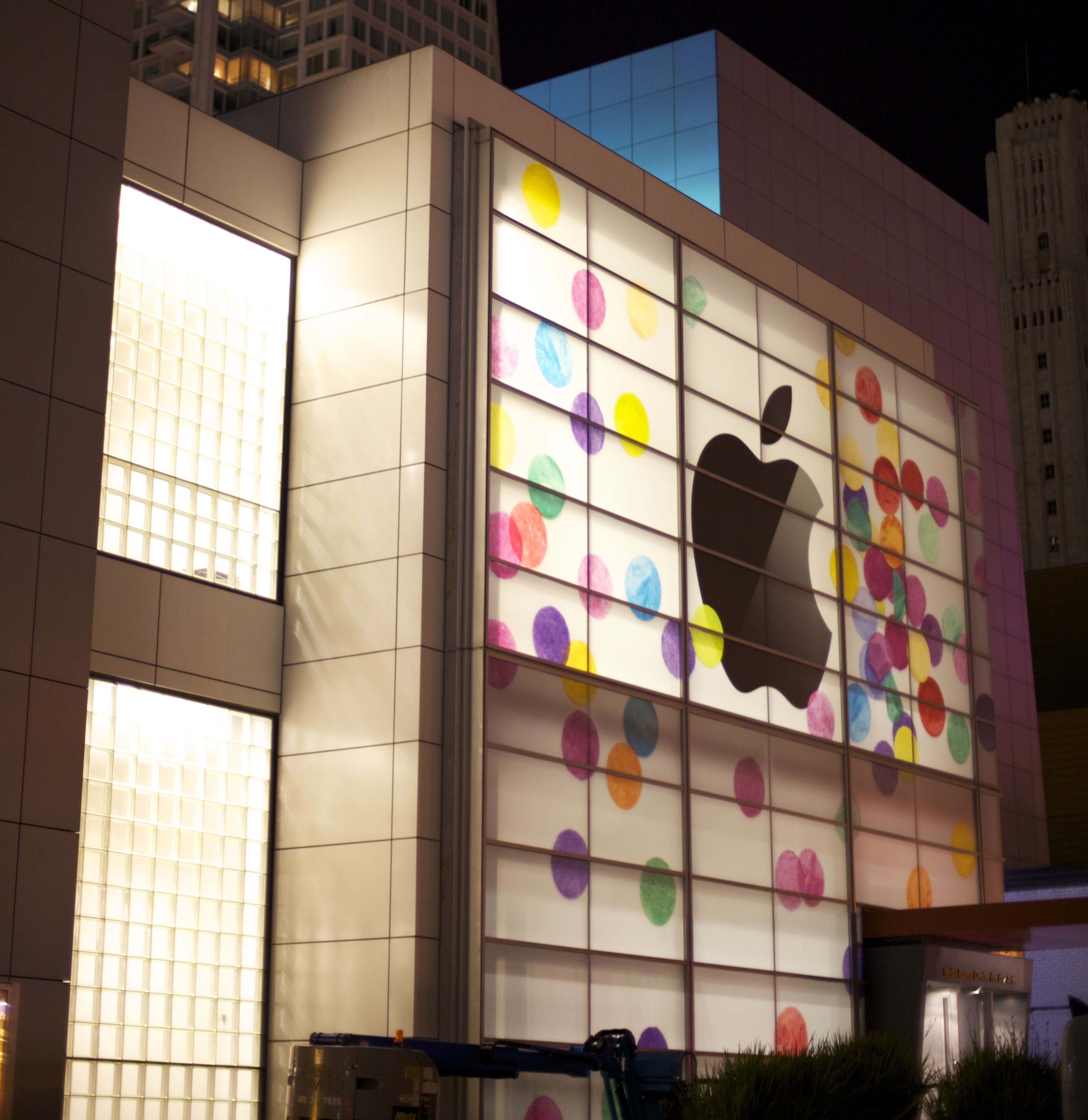 Yerba Buena Center for the Arts (YBCA) one week before iPad 2 announcement.